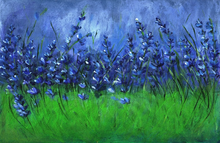 lavender